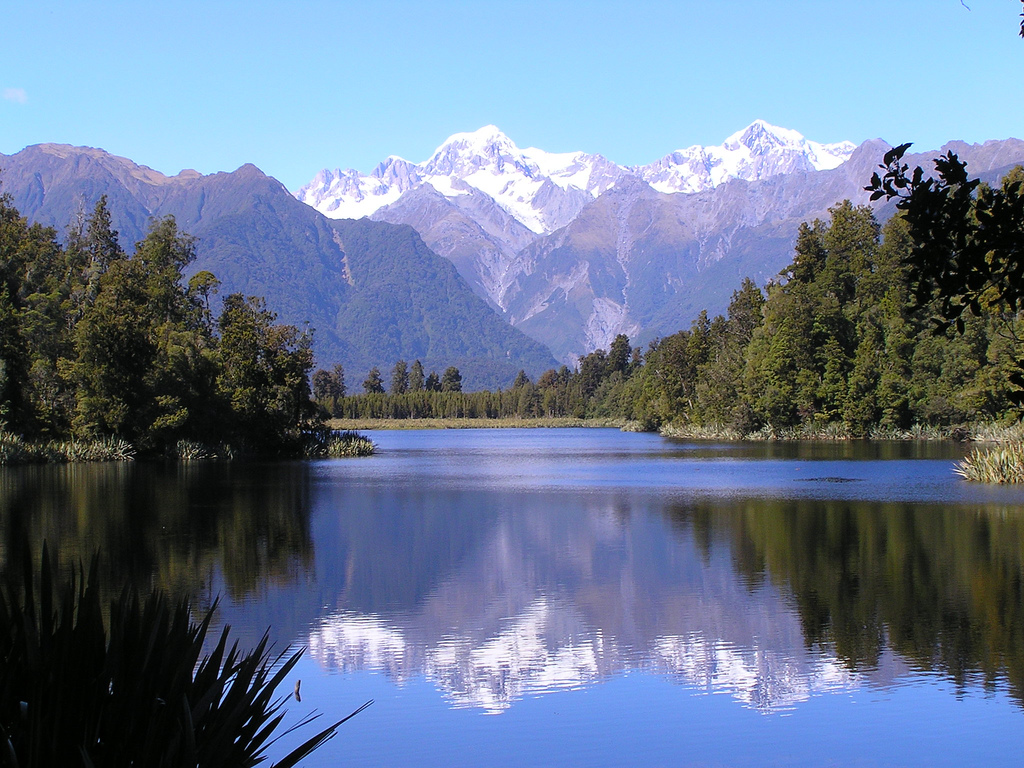 English